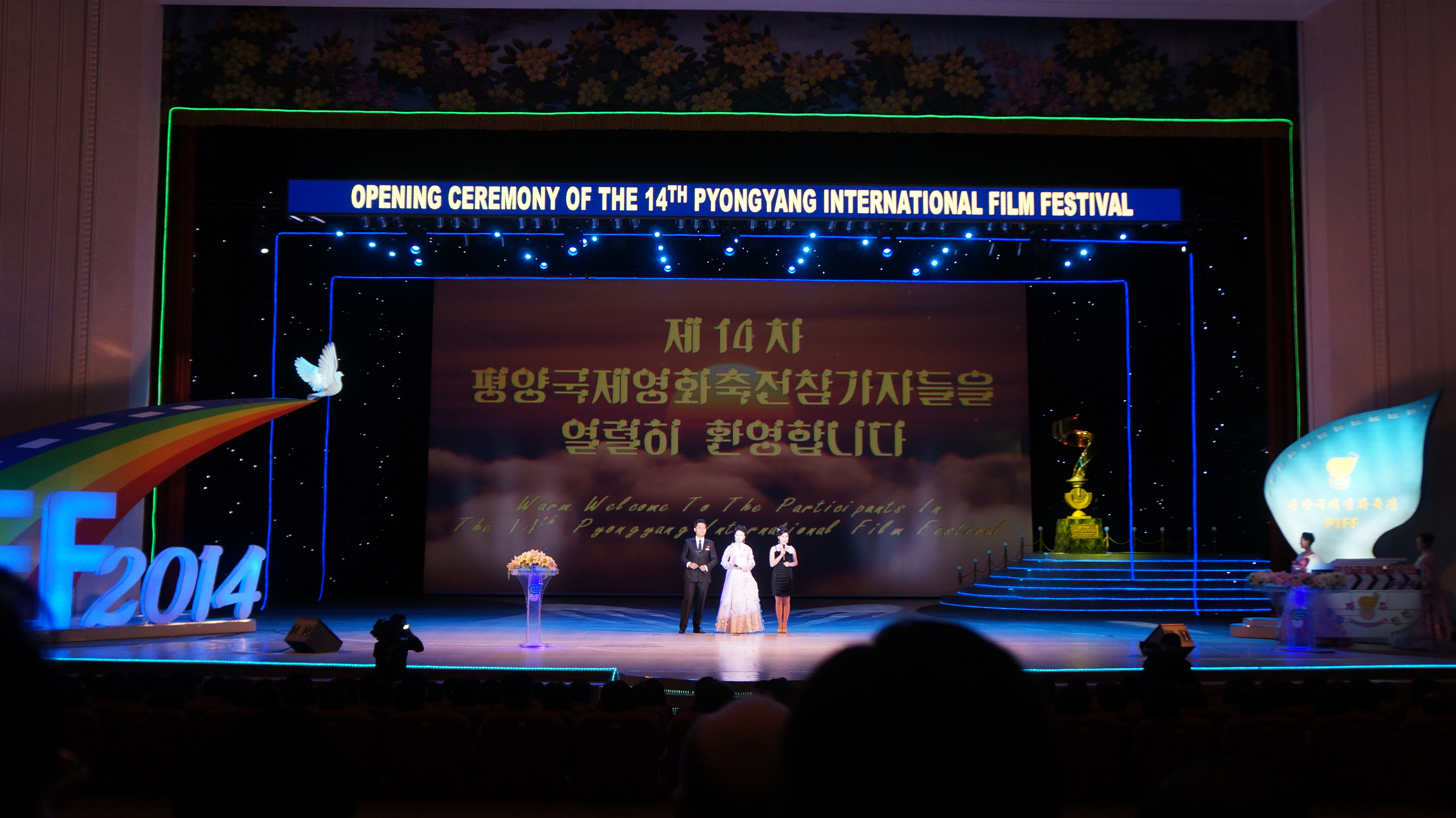 Opening ceremony of the PIFF 2014